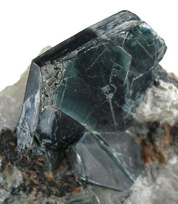 Clinochlore Locality: Tilly Foster mine, Brewster, Putnam County, New York, USA (Locality at ) Size: small cabinet, 8.4 x 7.9 x 3.5 cm Clinochlore This is a significant, and surprisingly attractive, specimen of clinochlore from the old Tilly Foster Mine. According to MINDAT: Large iron ore (magnetite) deposit discovered in 1810. The mine was 600 feet deep in 1879. Mining ceased in 1897, after 13 miners were killed in a rockslide. Specimens today are obviously hard to come by, and I know people who are dedicated to collecting Tilly material. Usually, you get chondrodite, and a few other species like clinochlore as mere associations. However, here it is definitely the dominant species, in a really nice, 3.2 x 2.5 x 0.6 cm, freestanding, crystal. It is easy to see the metallic green color. In fact, I cannot recall a clinochlore of this size, as showy, from any other locale? VERY OLD classic, ex. Dennis Mullane Collection